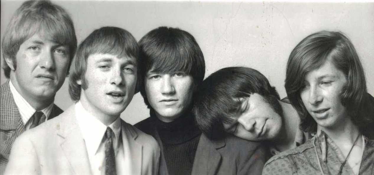 American folk-rock group Buffalo Springfield, (pictured left to right) Dewey Martin (drums), Stephen Stills (guitar, vocals), Richie Furay (guitar), Neil Young (guitar, vocals) and Bruce Palmer (bass guitar)